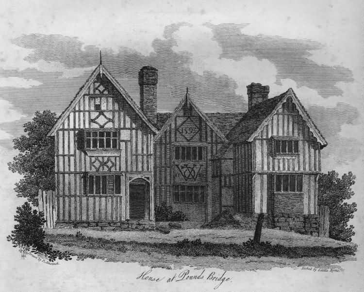 Published in Tunbridge Wells and its Neighbourhood by Paul Amsinck and Letitia Byrne published by William Miller, Albemarle St. and Edmund Lloyd, Harley St. in 1810